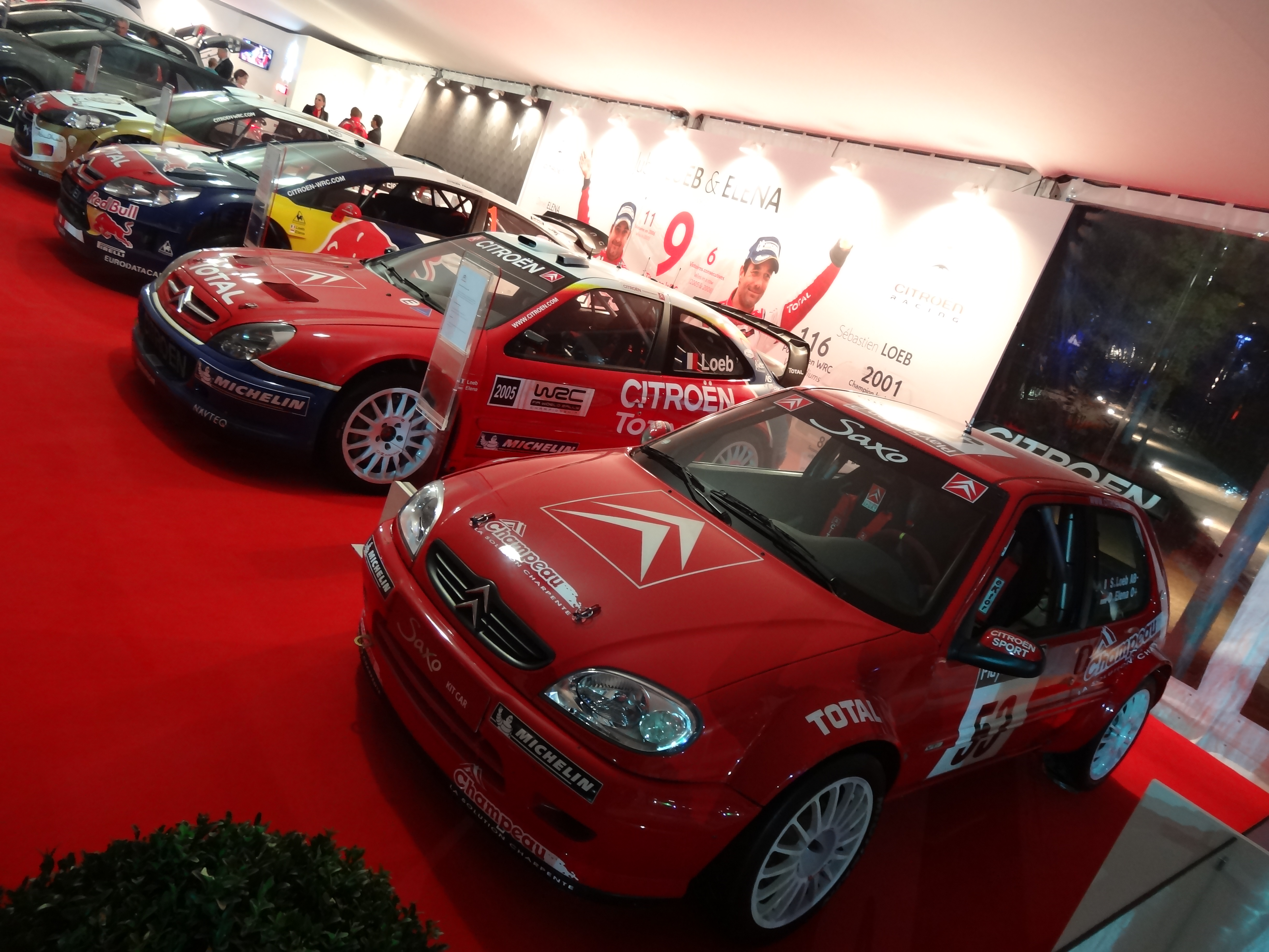 Rallye de France Alsace 2013 13 Strasbourg Service Park - Sebastian Loeb Citroen Saxo